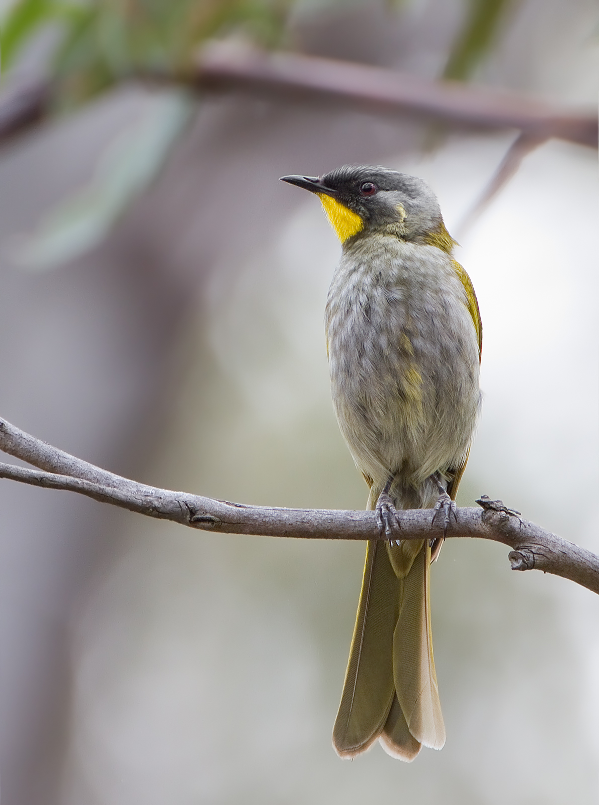 Yellow-throated Honeyeater (Lichenostomus flavicollis), Austins Ferry, Tasmania, Australia